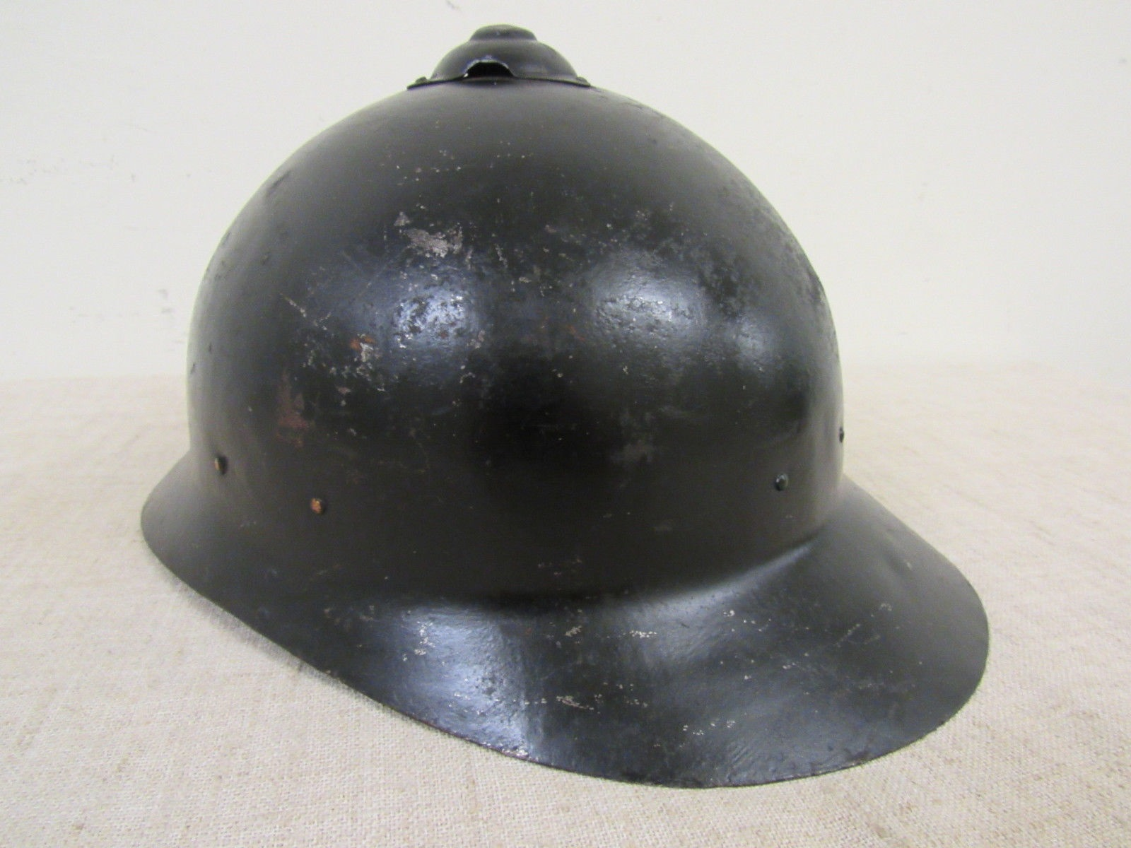 Russian-Finnish so called Sohlberg military helmet, which was in use 1917- 1940-th. This one helmet was the most probably utilized by Finnish military forces (Suojeluskunta?) in 1920~1930s.